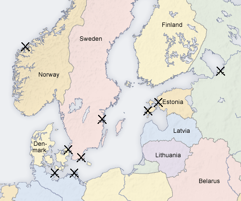 Locations of the battles and raids of Eiríkr Hákonarson in Scandinavia and the Baltic. I principally followed the Fagrskinna summary of Bandadrápa but also consulted Heimskringla. When there is more than one battle mentioned in approximately the same location I only inserted one icon - for example the battle with Skopti and the battle of Hjörungavágr only get one dual sword in Norway. Made from :Image:Europe countries map en.png.